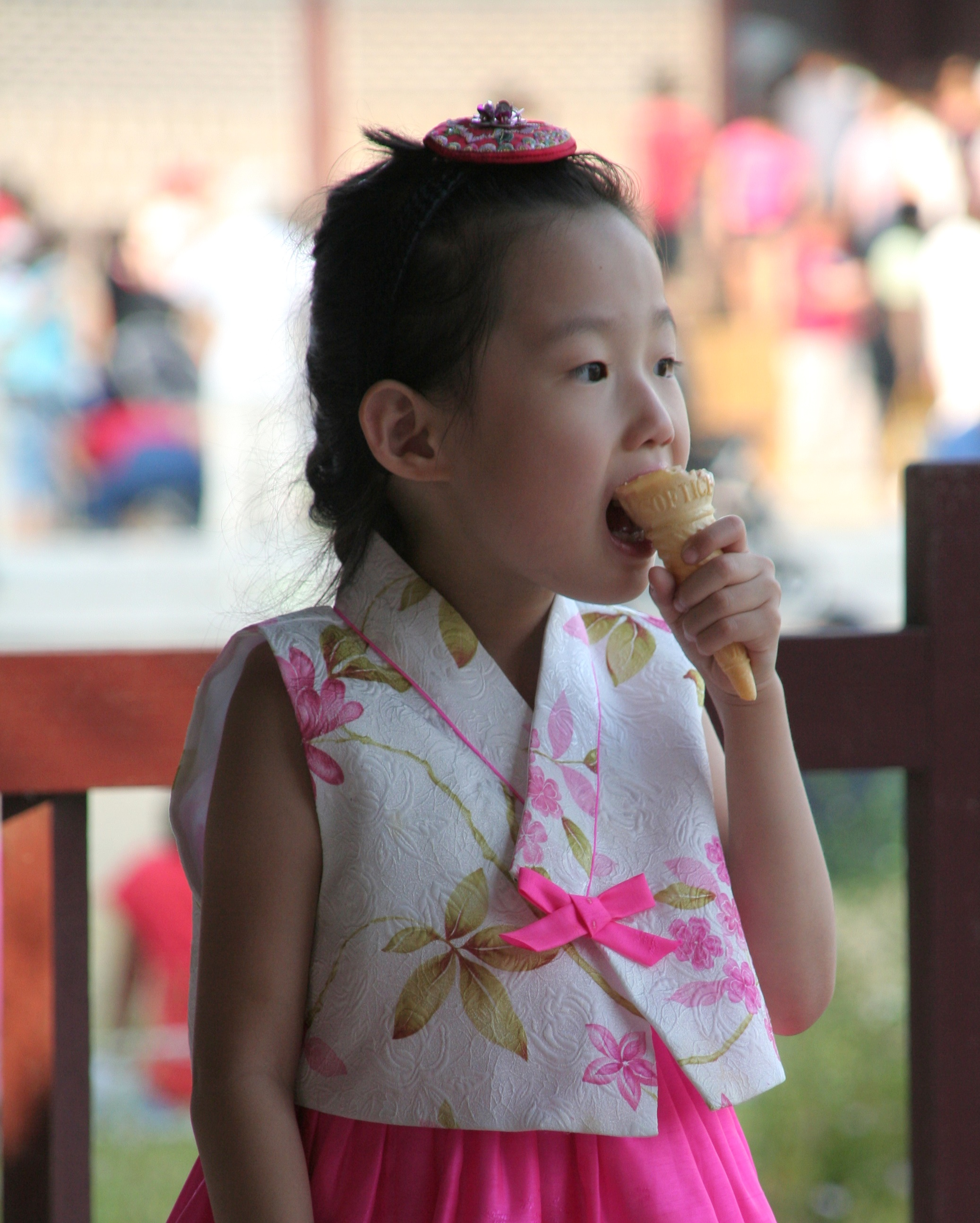 Baetssi daenggi (뱃씨댕기) on top of the head.